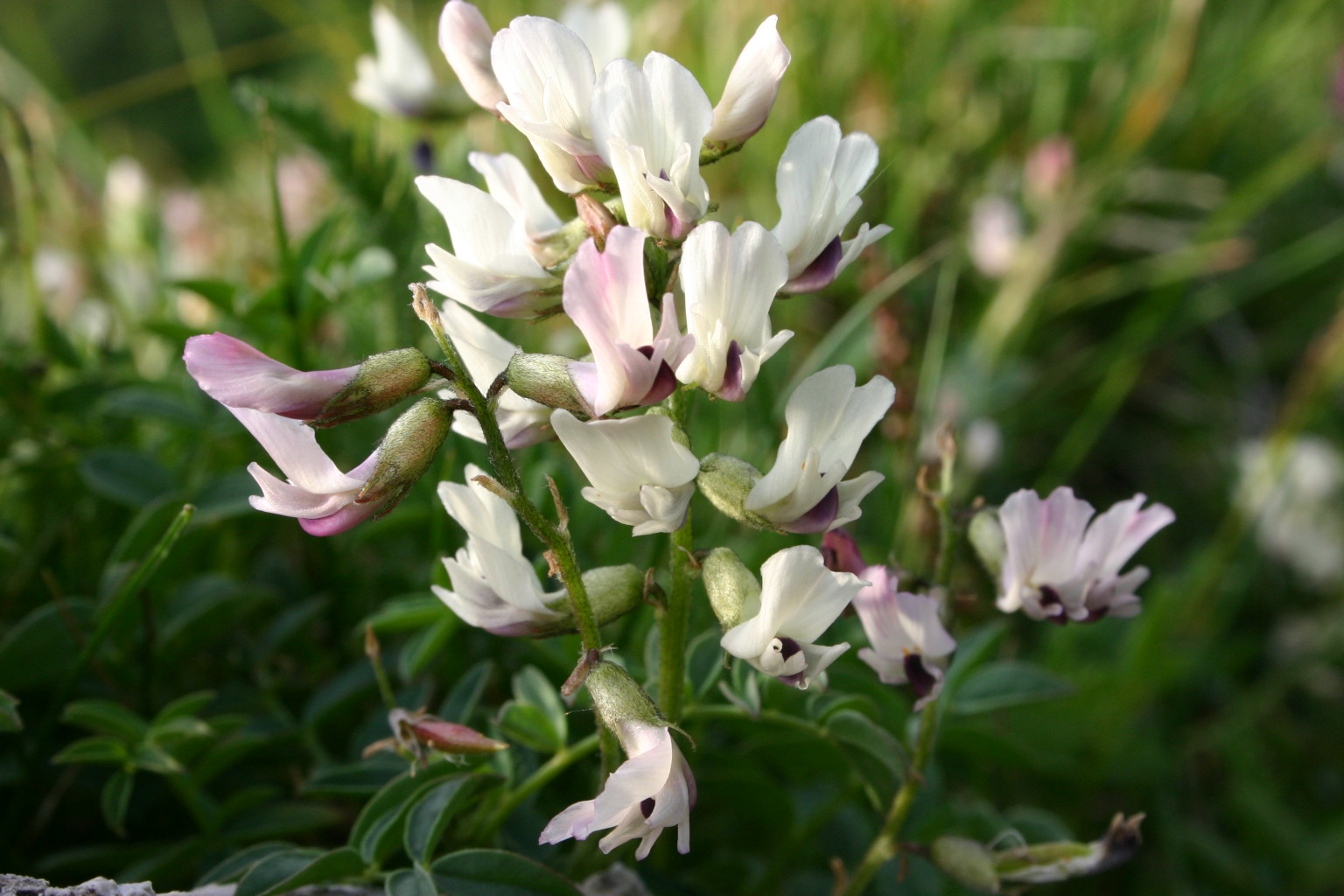 Astragalus australis